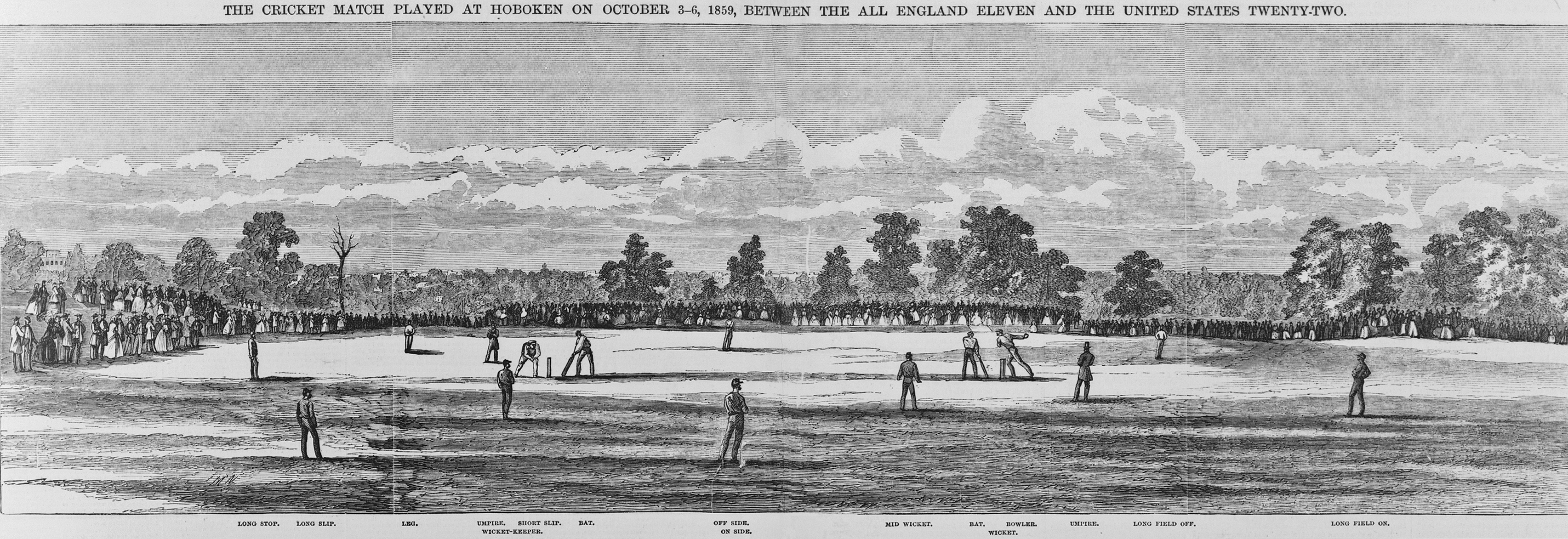 Original title: "The cricket match played at Hoboken on October 3-6, 1859, between the All England Eleven and the United States Twenty-Two"